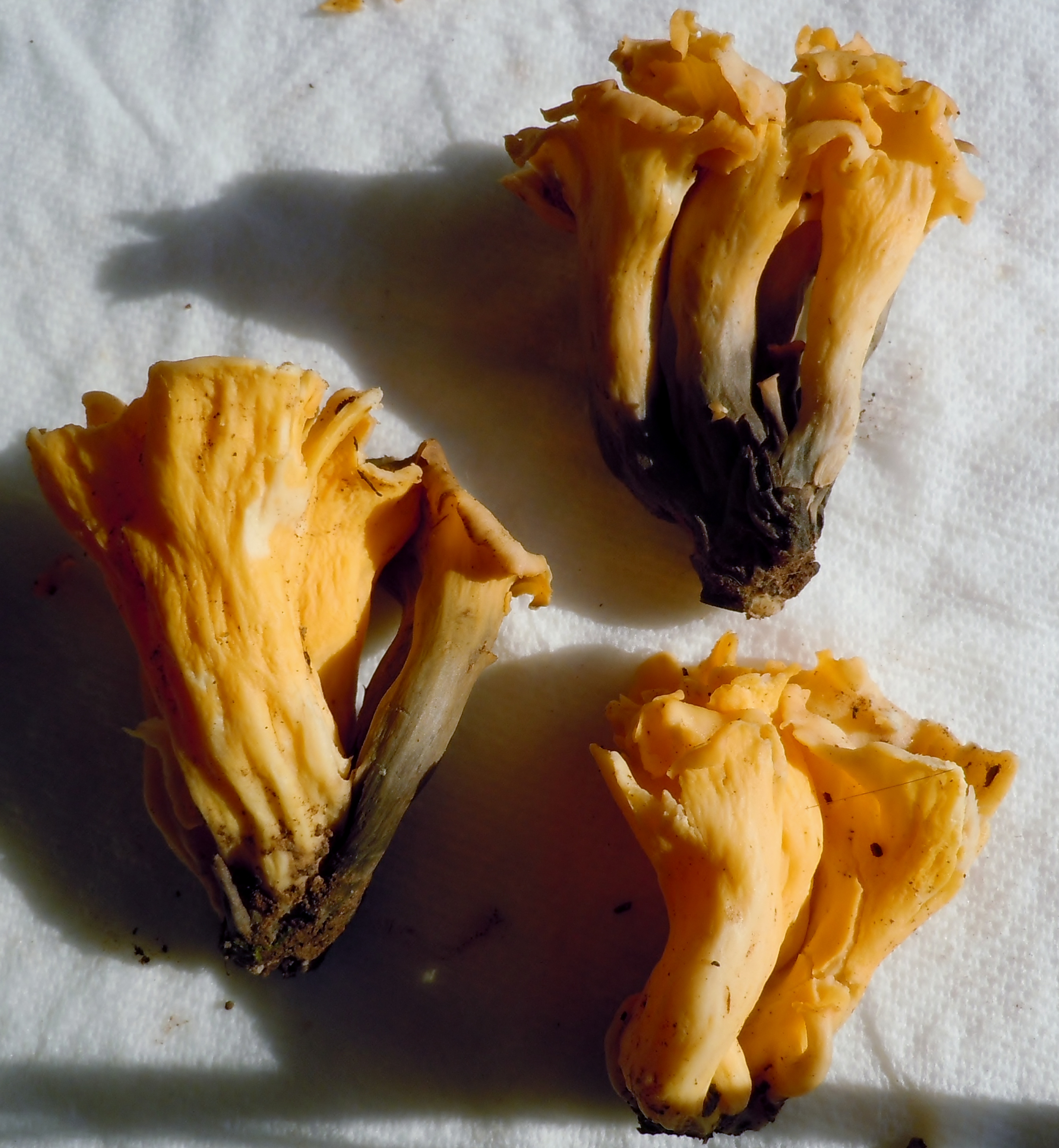 Craterellus cornucopioides (L.) Pers. Image location: Salt Point State Park, Sonoma Co., California, USA These yellow specimens were found at the same location within about a 20-30 yard radius area that I have found similar ones the past 2 years. Recognized by sight: There were normal dark Craterella cornucopioides mushrooms scattered around the same area as these lighter colored ones though much fewer than last Jan 2011. For more information about this, see the observation page at Mushroom Observer.